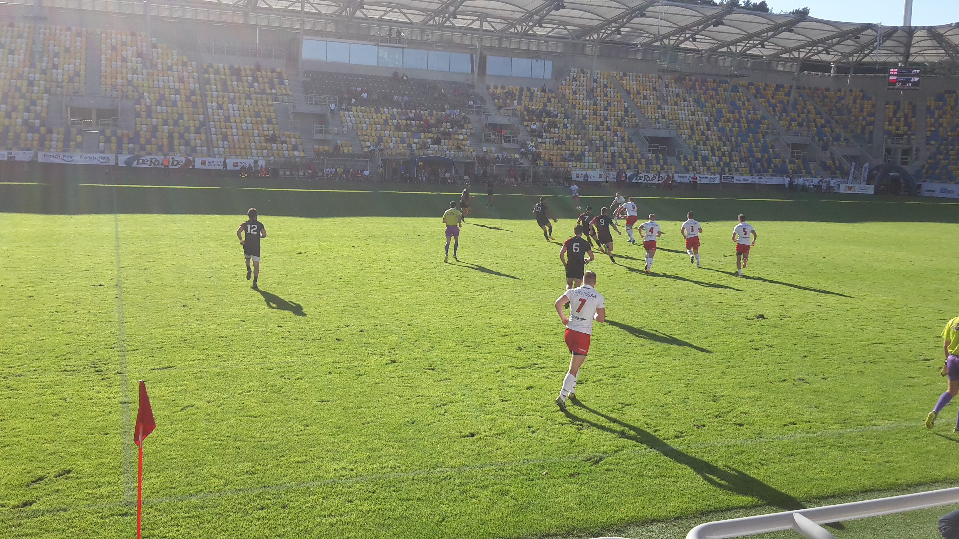 Rugby sevens tournament Gdynia Sevens 2016. Match Poland-Georgia.